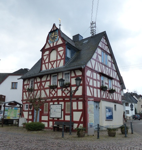 Rathaus in Arzbach, Rhineland-Palatinate